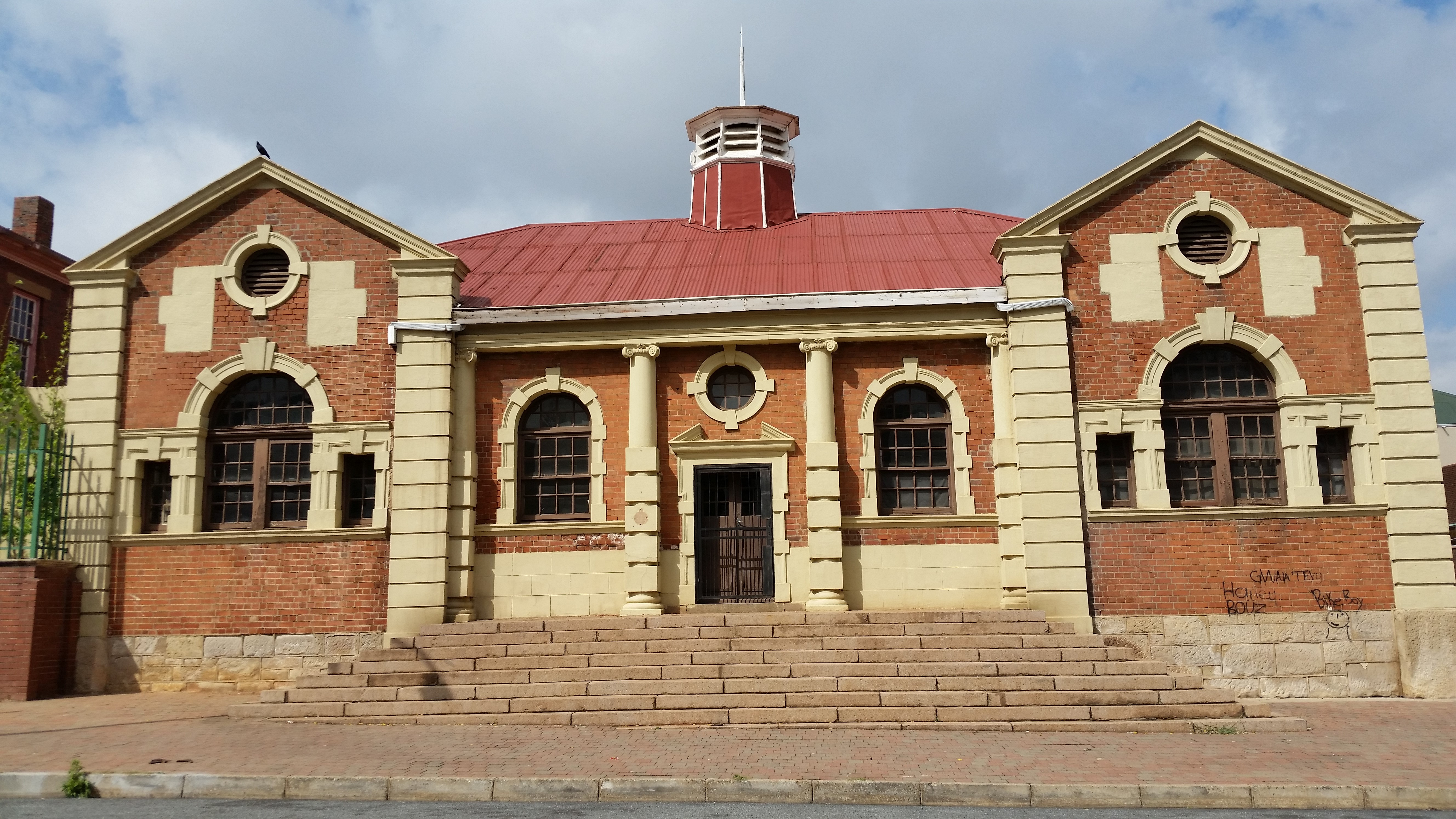 This is the old Boksburg Post Office taken on a late Sunday morning in September 2015. The surrounding area is a bit run-down and dodgy, but the building is stately and beautiful. This media shows a South African Protected Site with SAHRA file reference 9/2/209/0001.